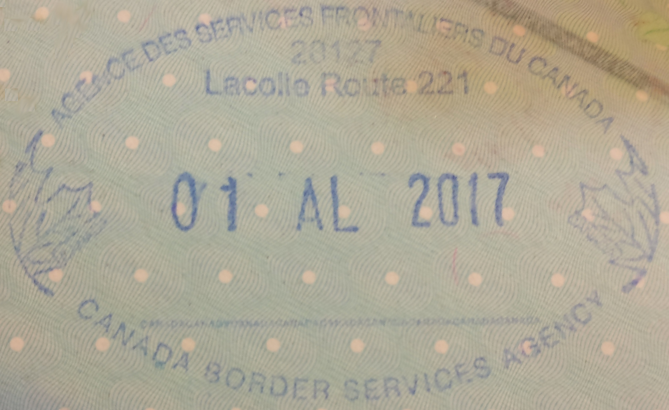 French version of the CBSA stamp with the French name on top obtained at crossing between New York State and Quebec on Route 221. In a Slovak passport.